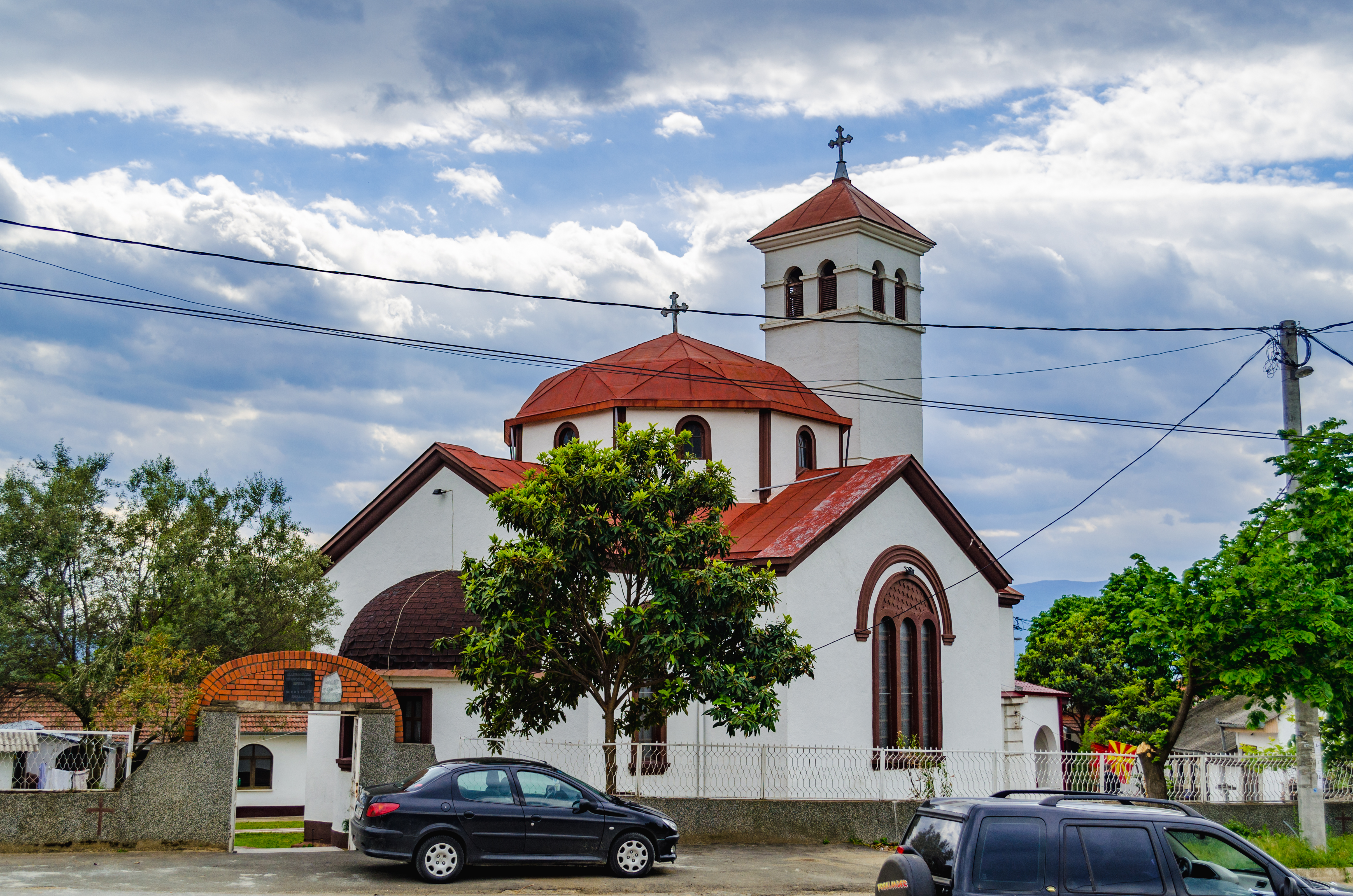 St. George's Church in the village Pirava